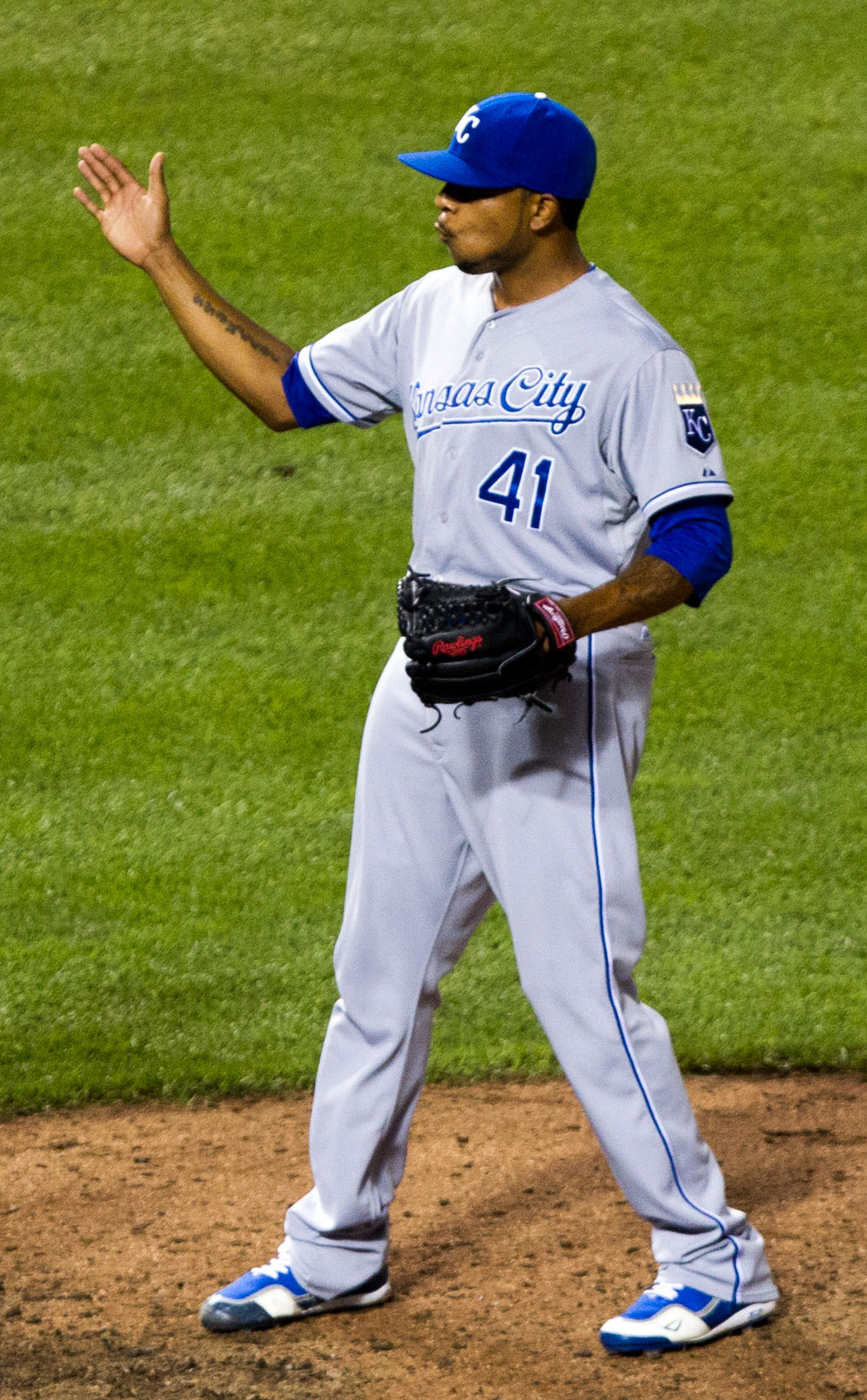 Jeremy Jeffress